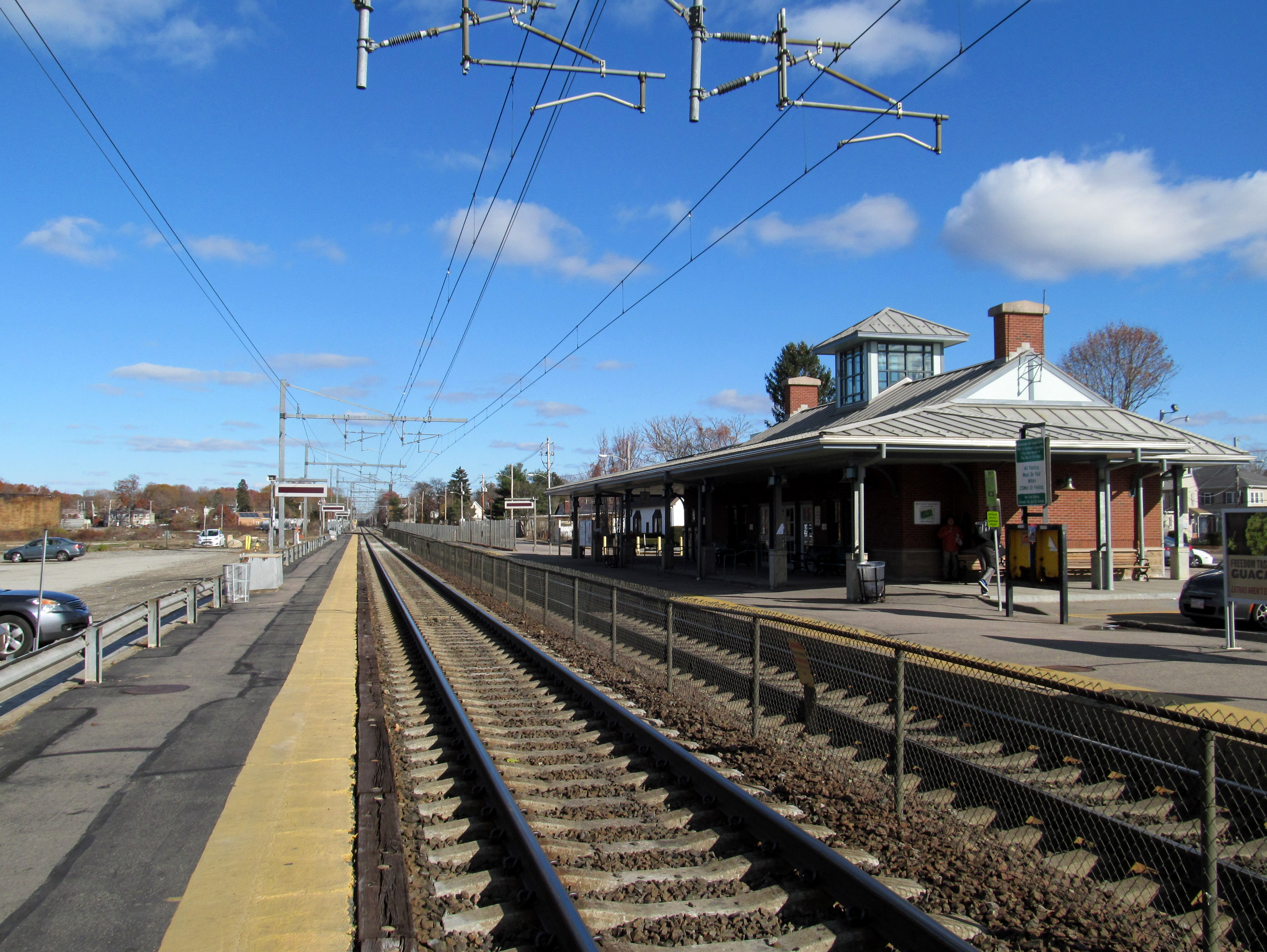 Mansfield station in November 2014